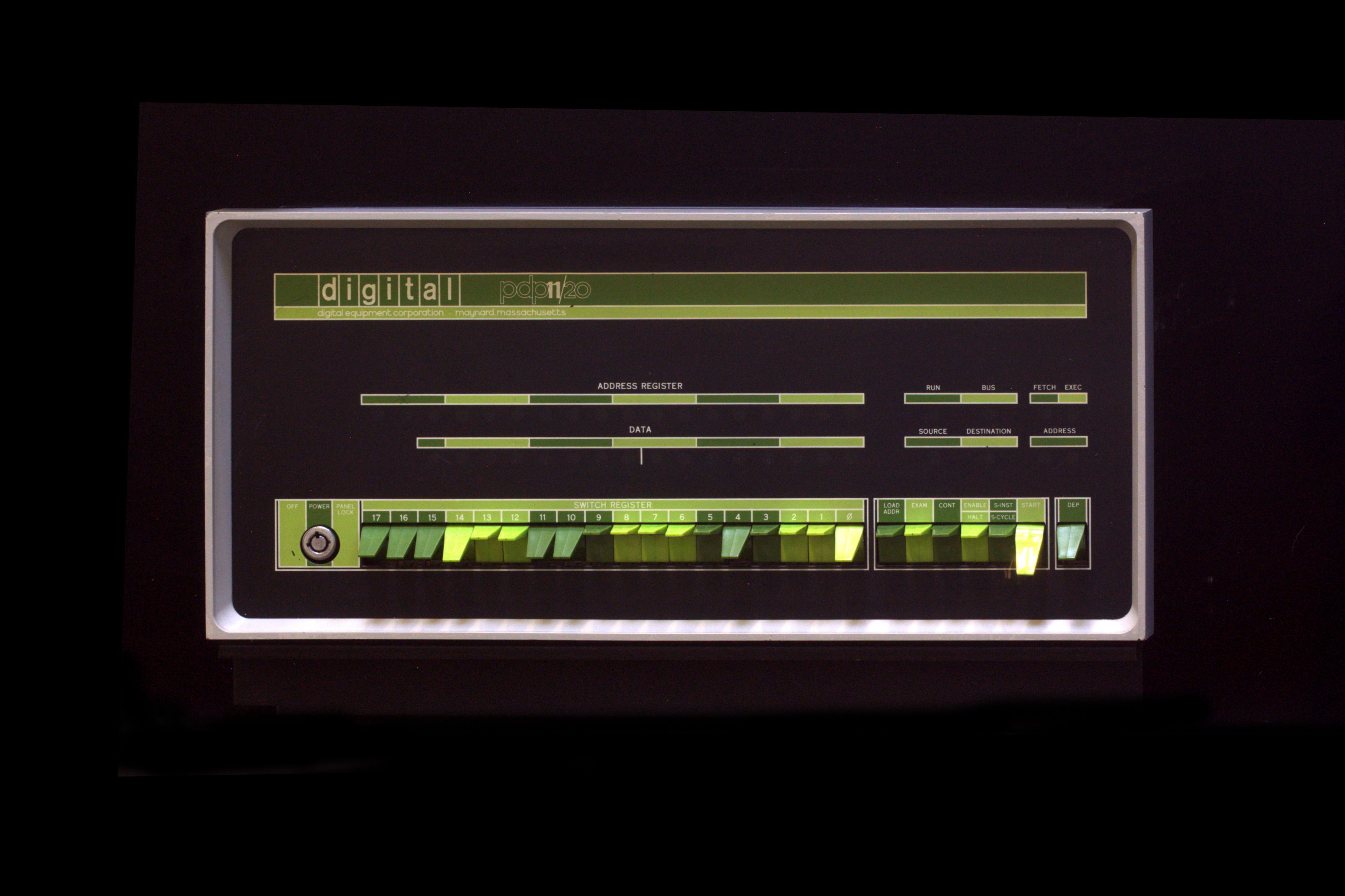 PDP-11/20. On display at the Musée Bolo, EPFL, Lausanne. The making of this document was supported by Wikimedia CH.(Submit your project!) For all the files concerned, please see the category Supported by Wikimedia CH.